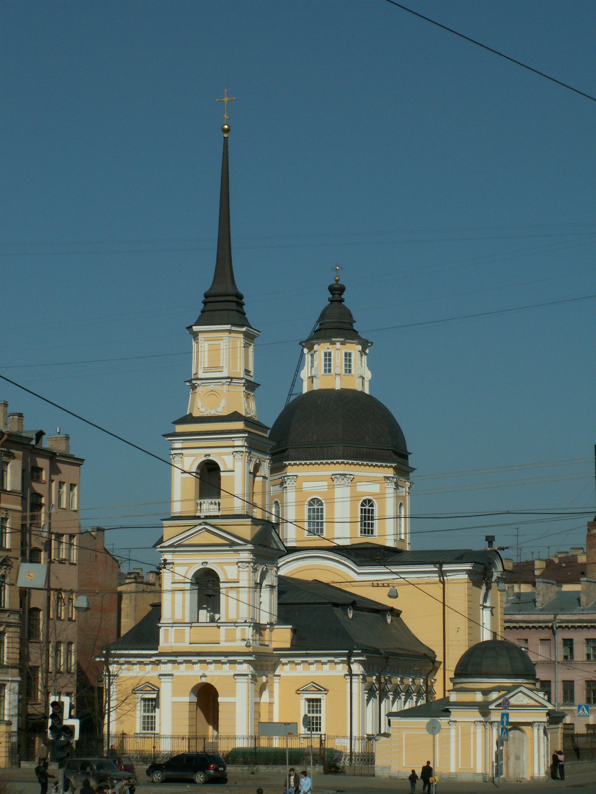 Saint Petersburg (Russia). St.Simeon church on the corner of Mokhovaya and Belinskogo streets.